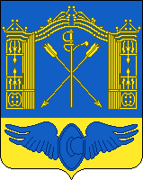 COA of Oredezhskoe rural settlement, Leningrad Oblast, Russia